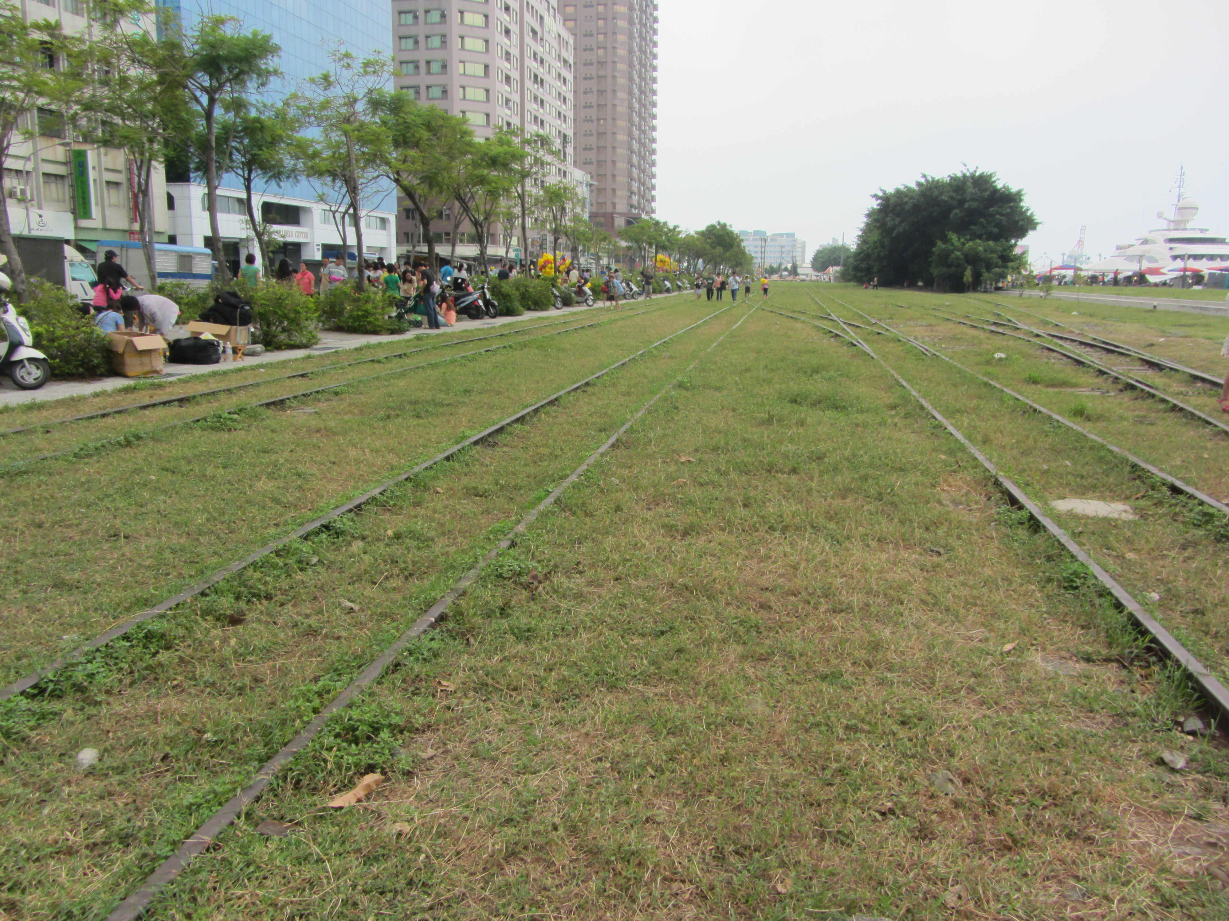 Lingyaliao Yard